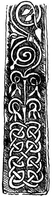 Sheffield Cross. Showing scroll-work and knot-work combined.